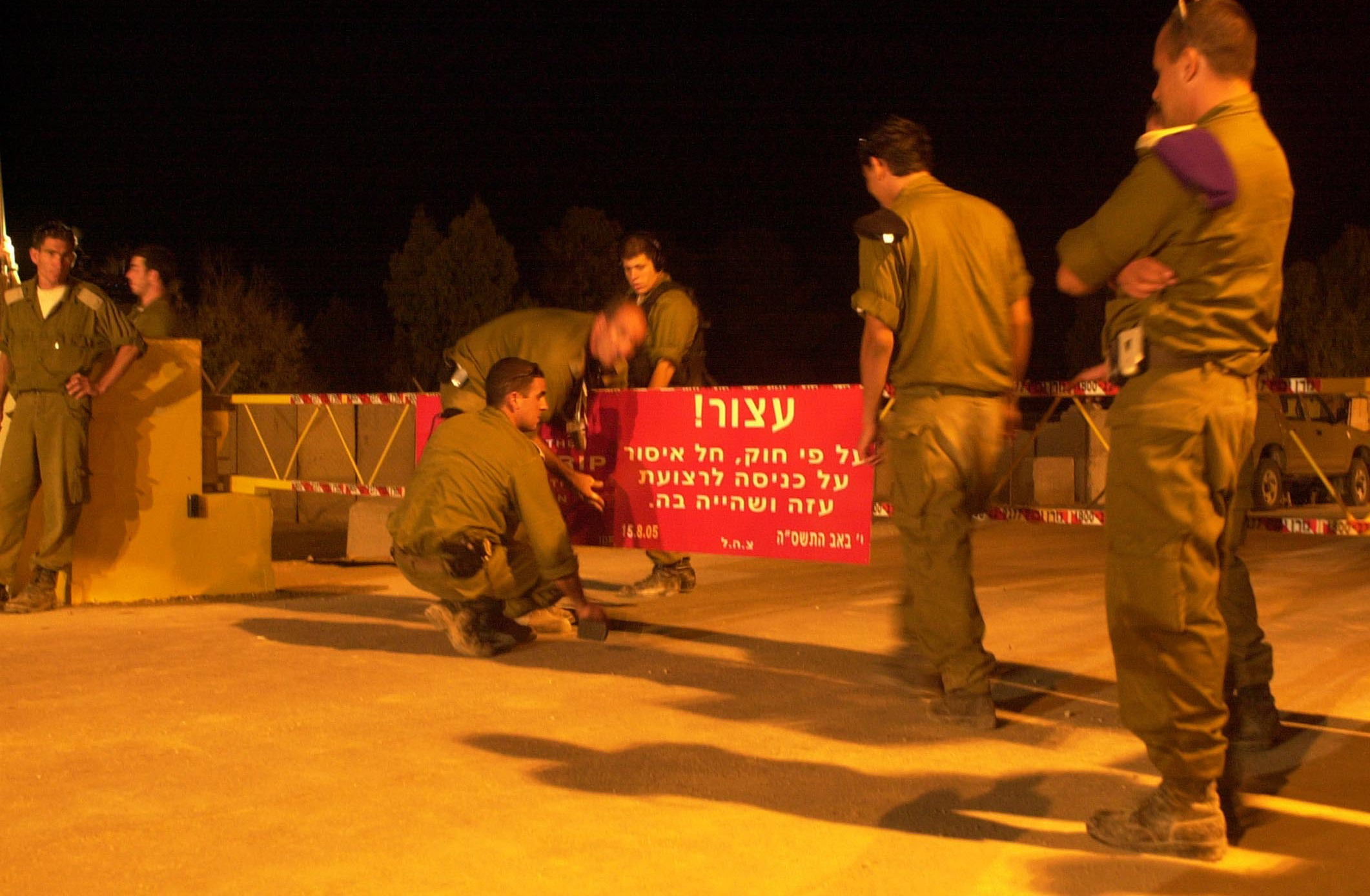 August 15, 2005. IDF forces and the Israeli Police close the Kisufim checkpoint to citizens by the order of the Prime Minister, Ariel Sharon, and the Ministry of Defense.